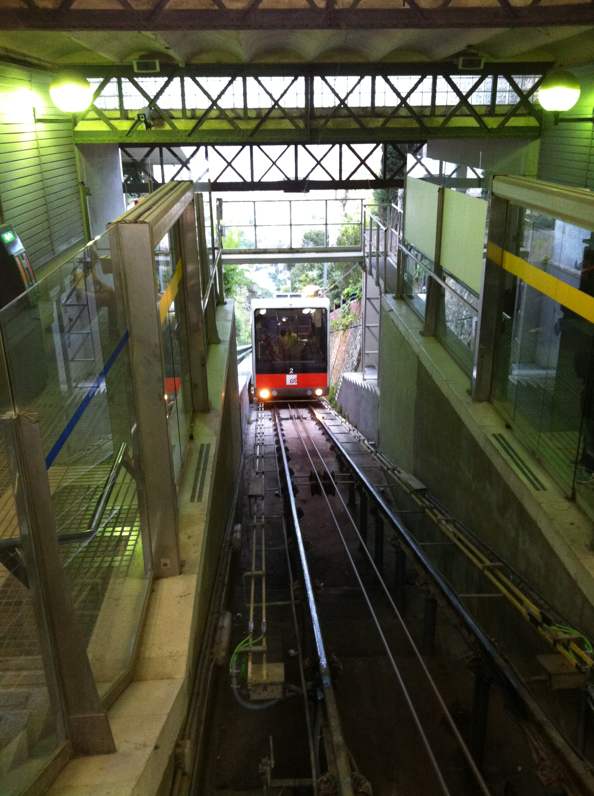 Vallvidrera Superior